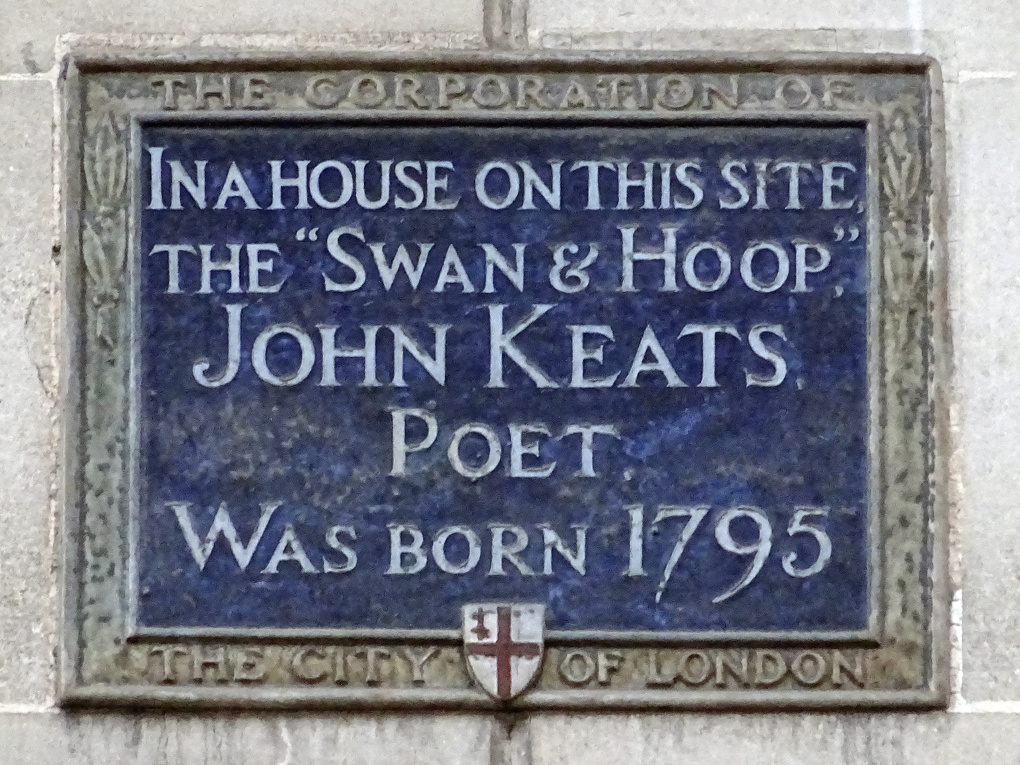 Blue Plaque erected by the Corporation of the City of London at 85 Moorgate, London EC2M 5QX